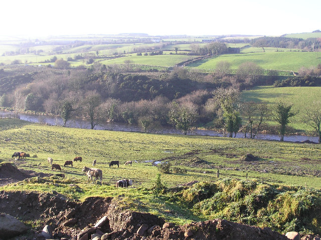 Carrigans Townland. A view towards the Strule river and the main road between Omagh and Newtownstewart, County Tyrone